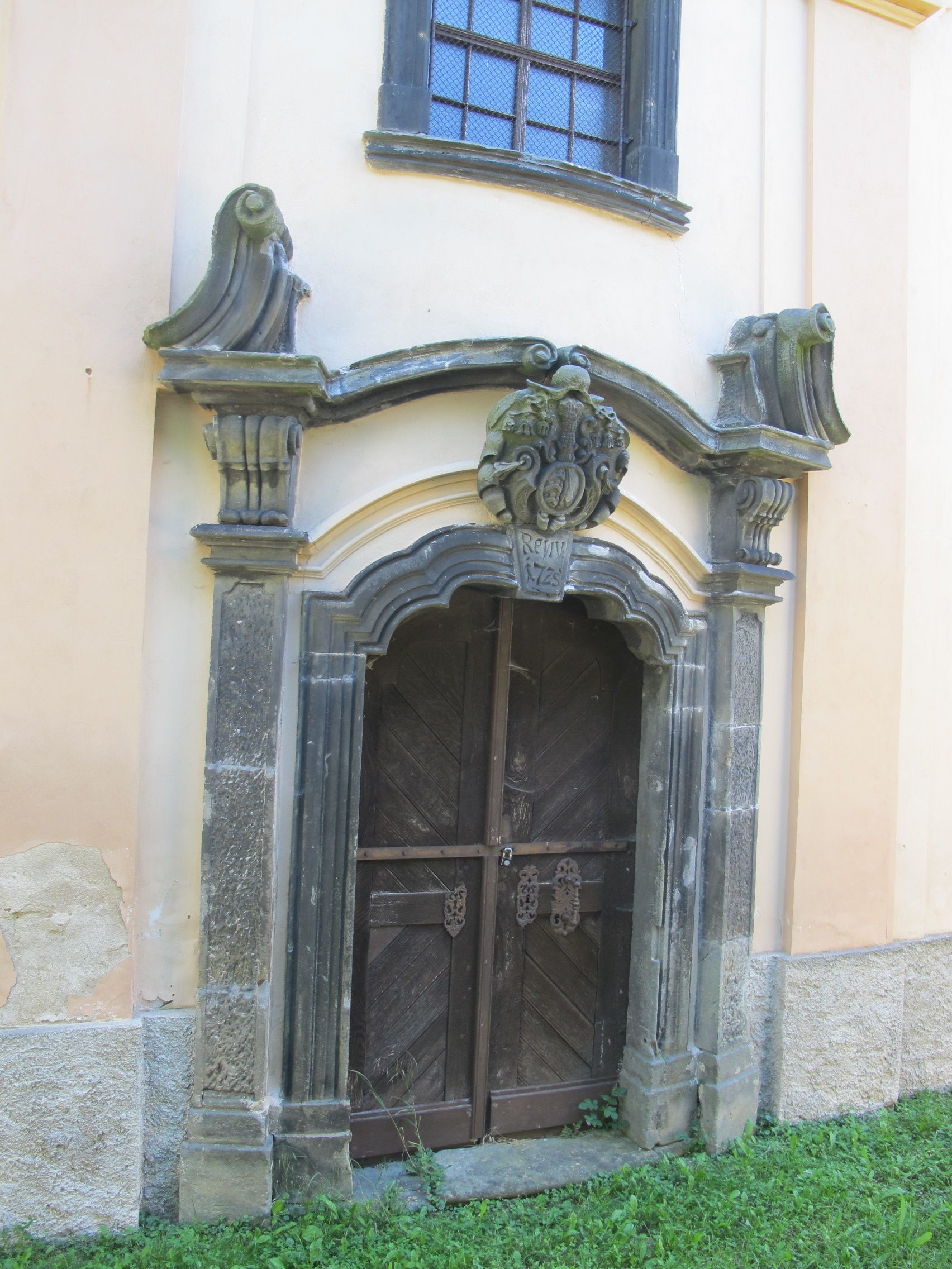 Portal of the church in Orasice